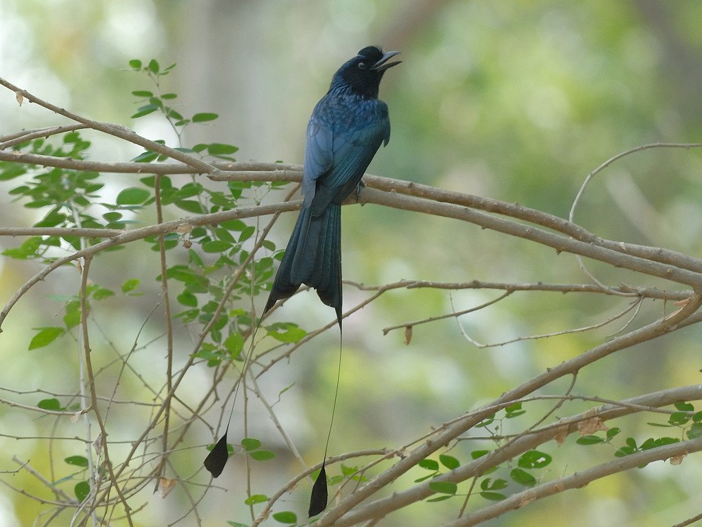 taken at Phutthamonthon, Thailand.